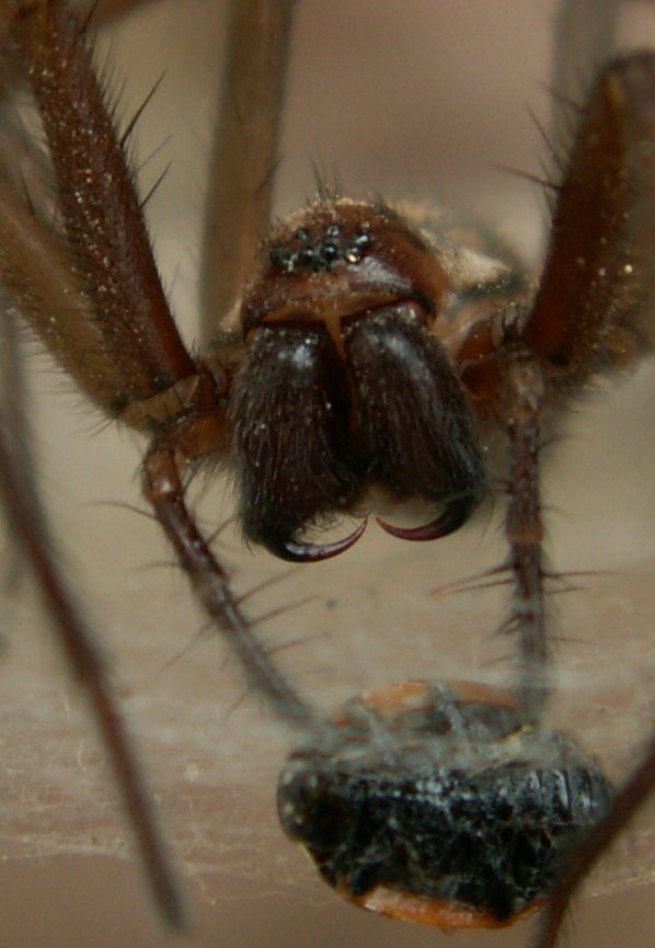 Tegenaria gigantea. A closer look at this beauty. I found it in a web outside our environmental department.